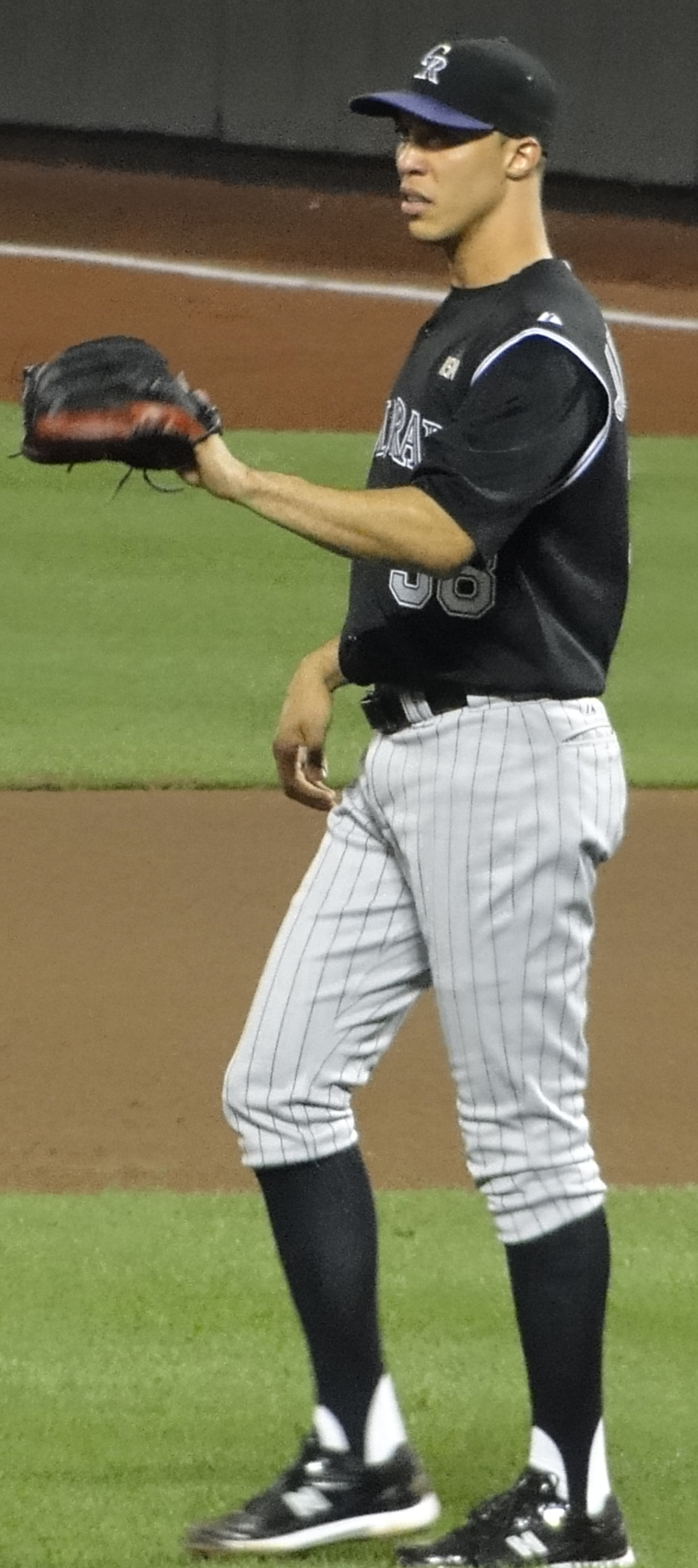 Dominican baseball player Ubaldo Jiménez.